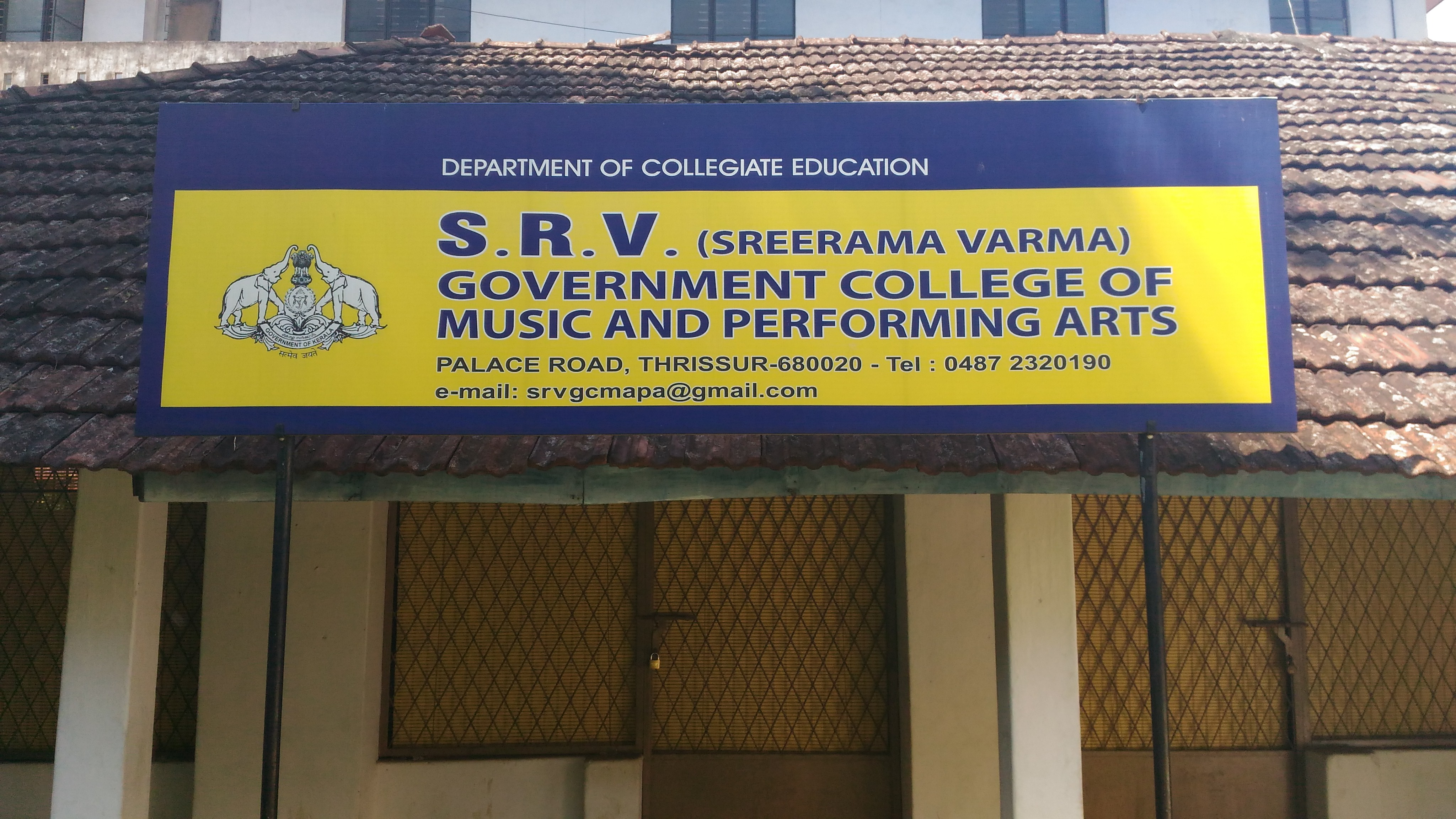 This is a image of S.R.V Govt.College of Music and Perfoming Arts, Thrissur